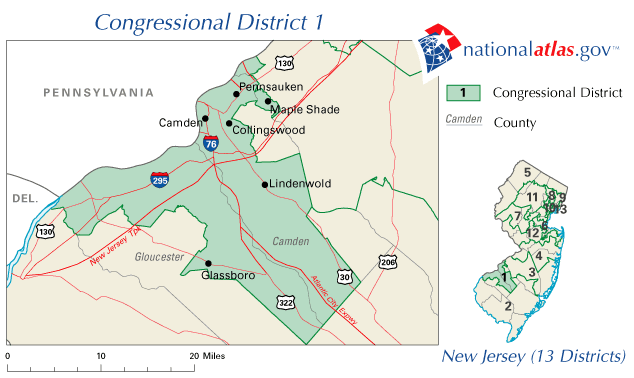 NJ's 1st US Congressional District. from Category:Congressional districts of New Jersey Category:New Jersey maps